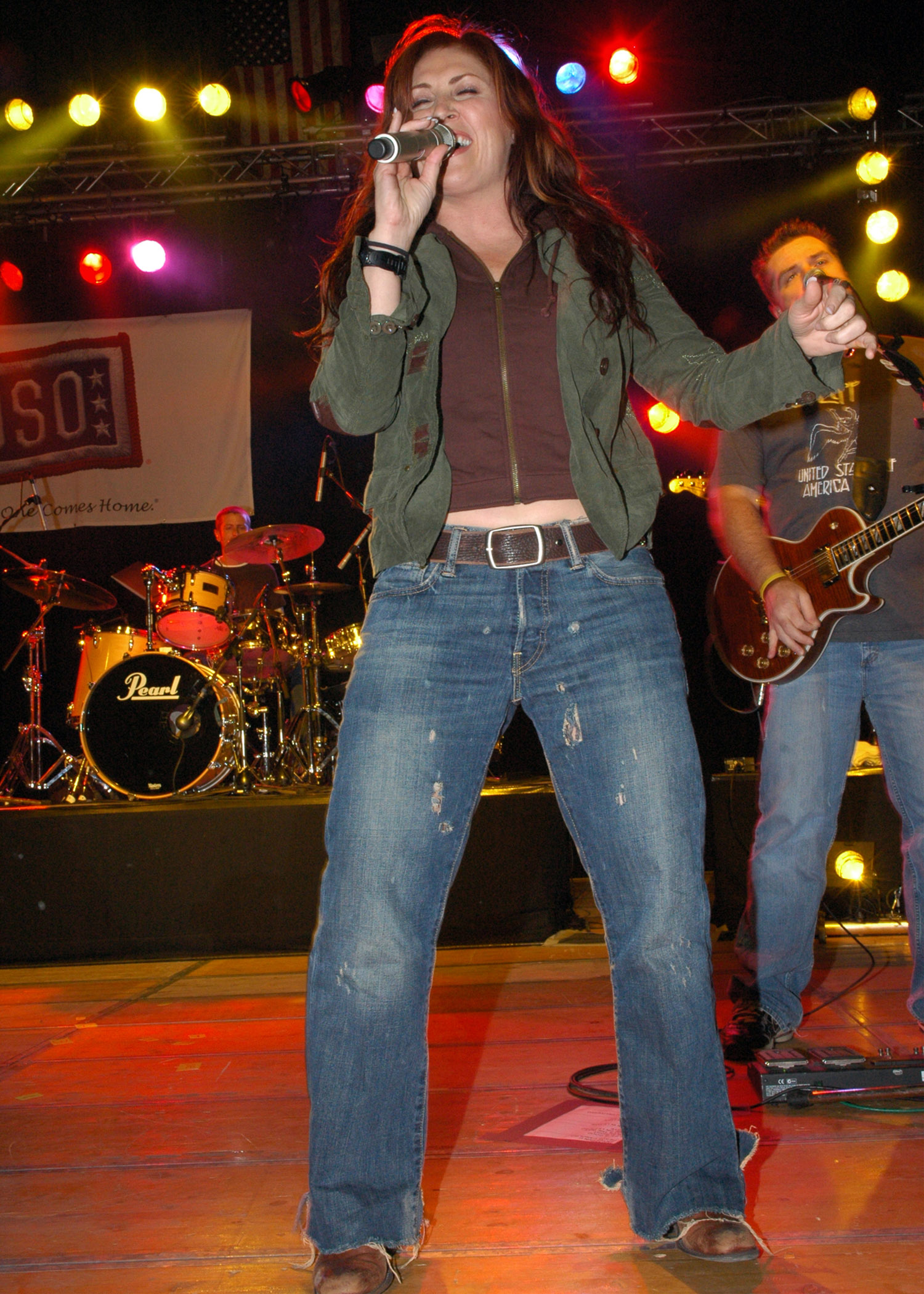 Naples, Italy (Jan. 10, 2007) - Jo Dee Messina sings "Entertain You," the first song of the night during her USO- and MWR-sponsored concert at the Hanger bay at Naval Support Activity Naples, Italy. The country music star performed at Aviano, Vicenza and Naples during the week-long tour performing her top hits. Messina grew up with a naval officer father, now retired, and says she finds performing for military crowds "extremely satisfying." U.S. Navy photo by Mass Communication Specialist 2nd Class Glenn S. Robertson